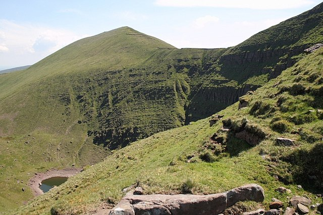 Galtybeg and Lough Diheen Galtybeg (799m) with a glimpse of Lough Diheen.